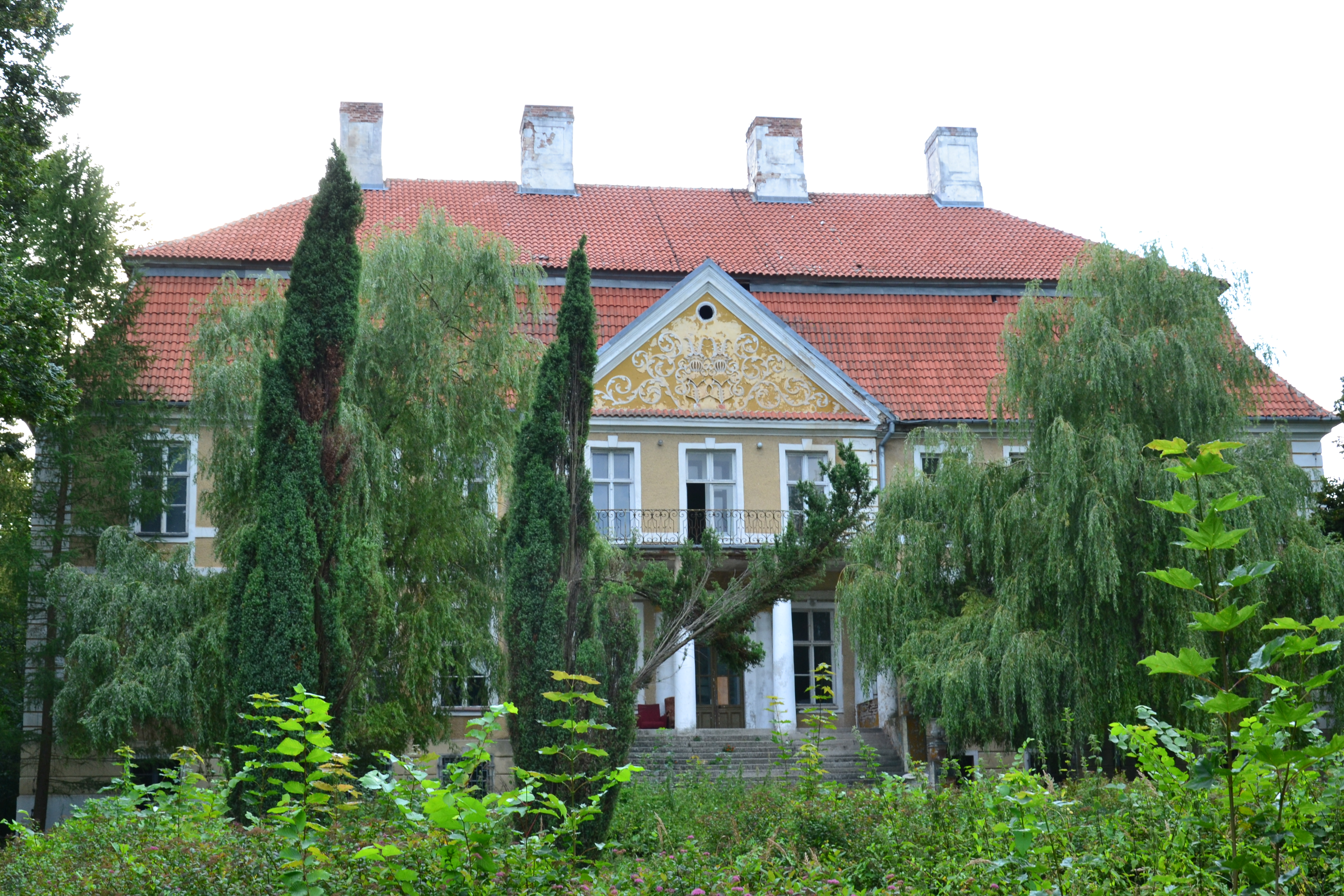 Palace in Stolec